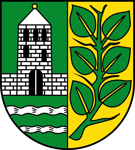 Coat of Arms of Lüdersburg First upload in de-wp: Bacanol (01:37, 7. Aug. 2005)